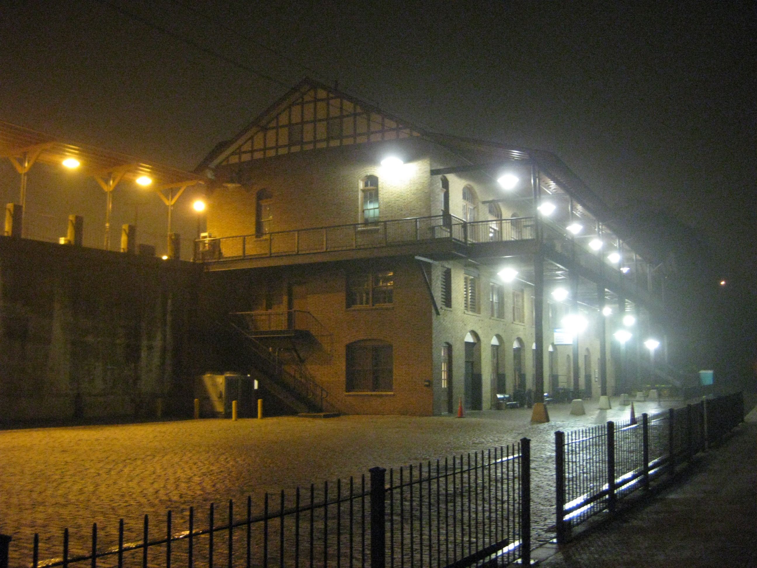 A nighttime view of Lynchburg, Virginia's Kemper Street Station, platform-side. The platform level houses Lynchburg's Amtrak Station, while two floors above at street level is the Greyhound bus terminal.